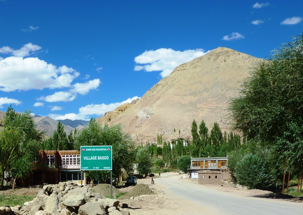 I took this photo on a trip in 2010.